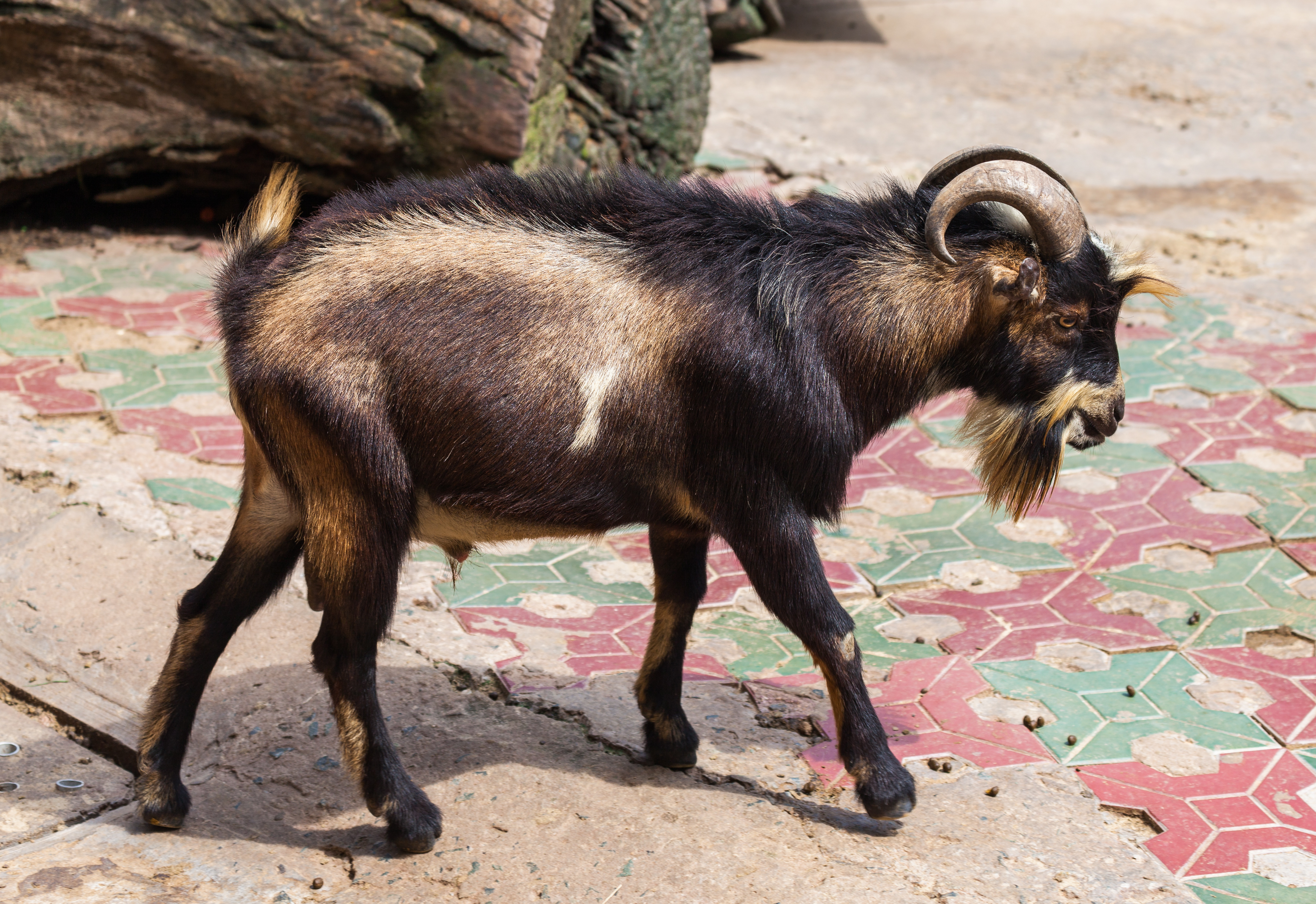 Goat (Capra aegagrus hircus), Ho Chi Minh City Zoo, Vietnam